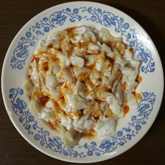 Turkish Mantı with yogurt and garlic and spiced with red pepper powder and melted butter.